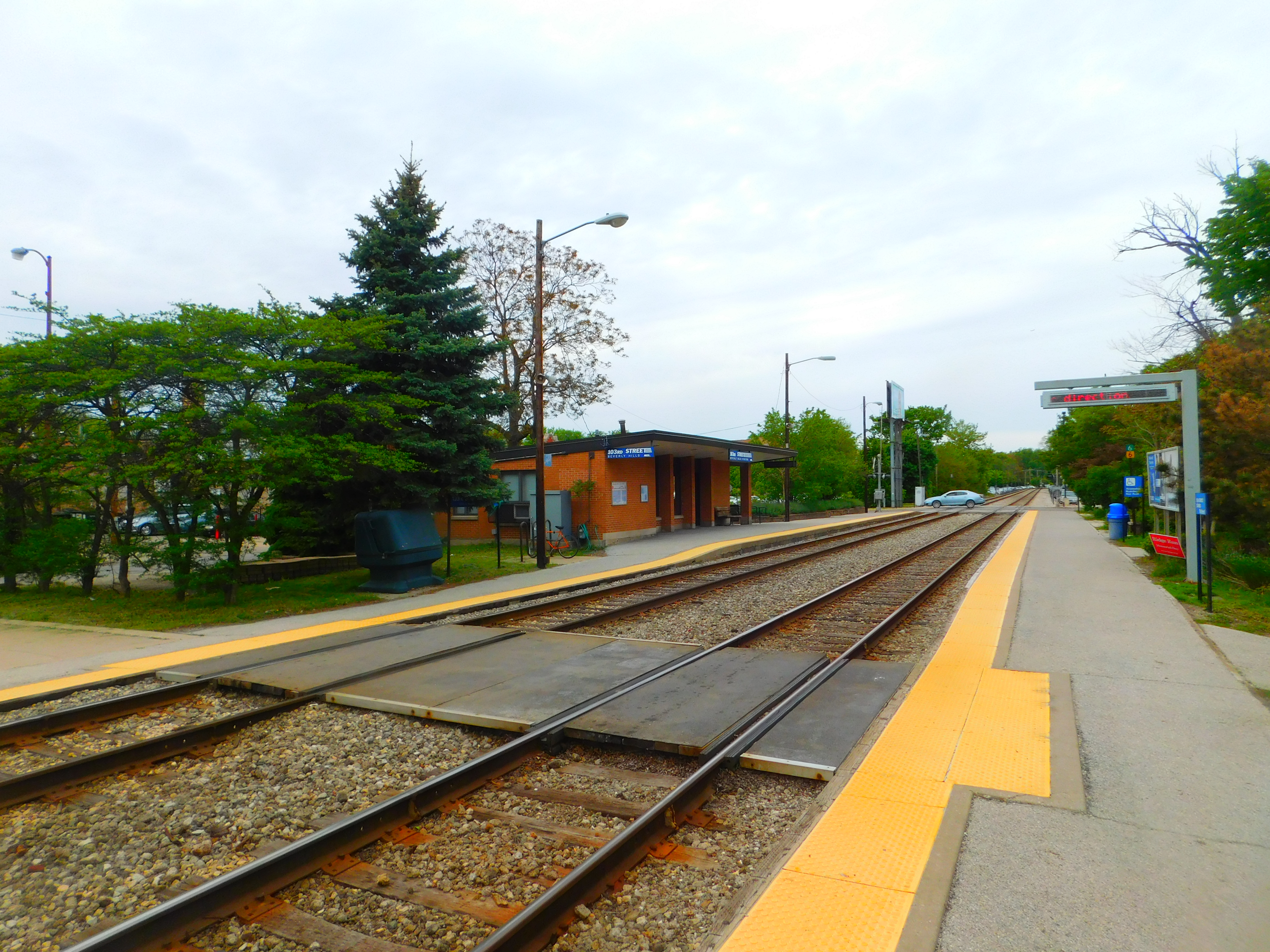 The 103rd Street–Beverly Hills station for Metra's Rock Island District in May 2016.